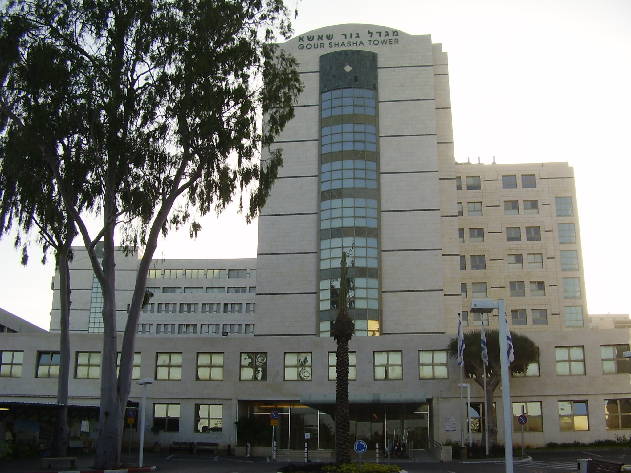 beilinson hospital in petakh tikva